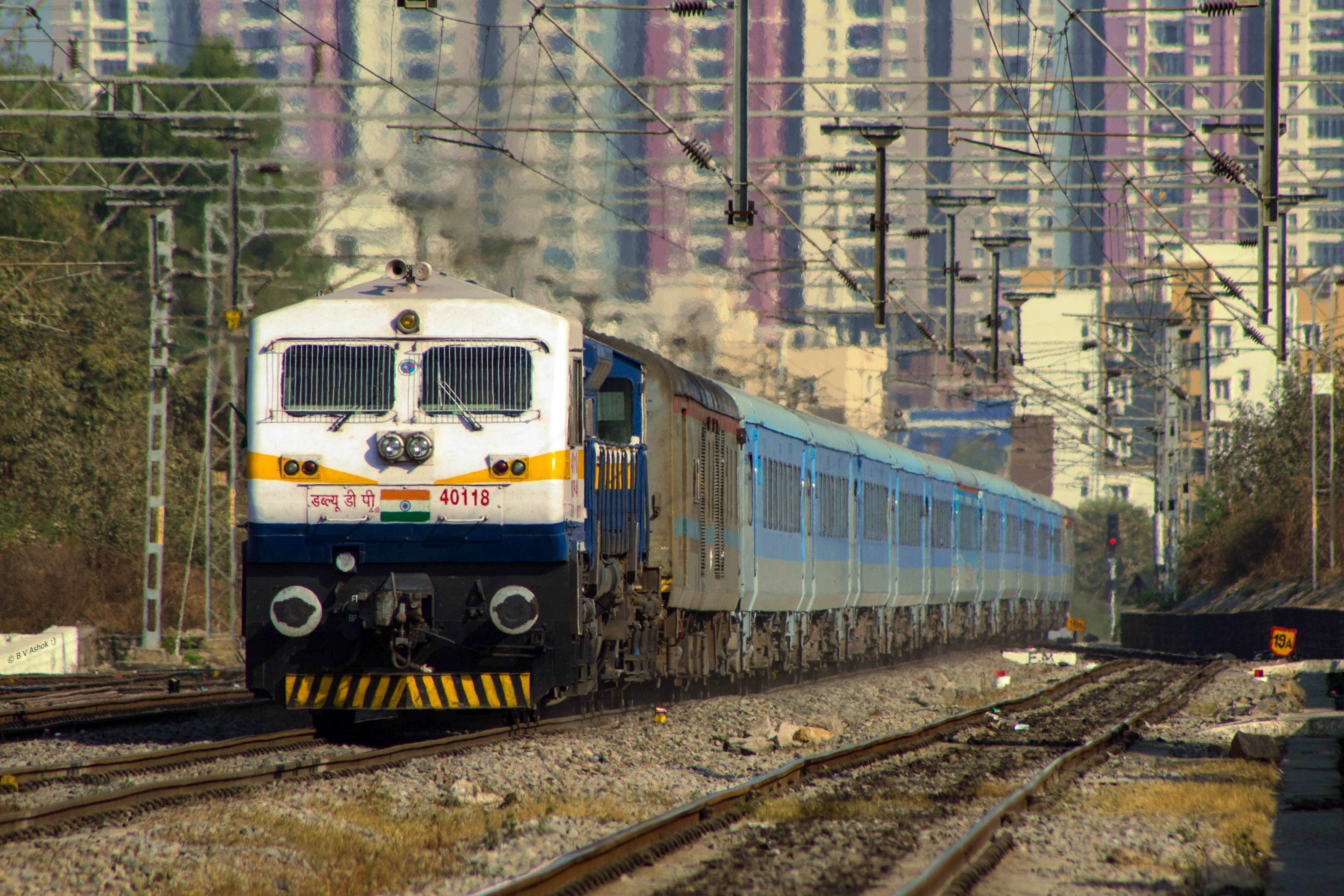 GY WDP-4D 40118 accelerating on mainline of Hafizpet with 12026 Secunderabad - Pune Shatabdi Express....